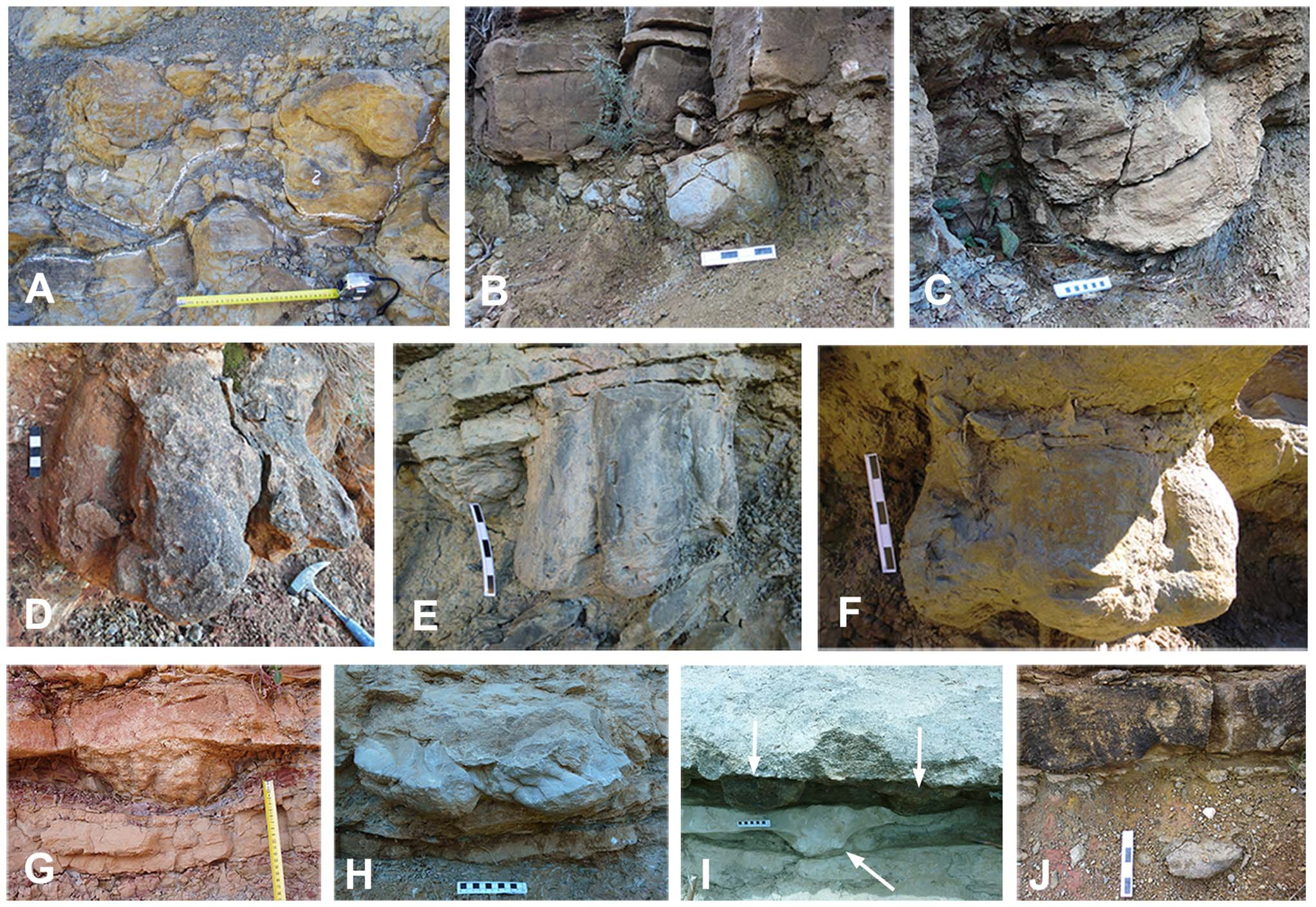 Ichnofossils of the Tremp Formation Page 8 of: Vila, Bernat (2013). "The Latest Succession of Dinosaur Tracksites in Europe: Hadrosaur Ichnology, Track Production and Palaeoenvironments". PLoS One 8: 1–15. Retrieved on 2018-05-24.